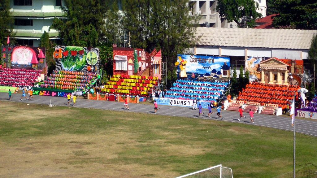 Running event during sports day at Triam Udom Suksa School